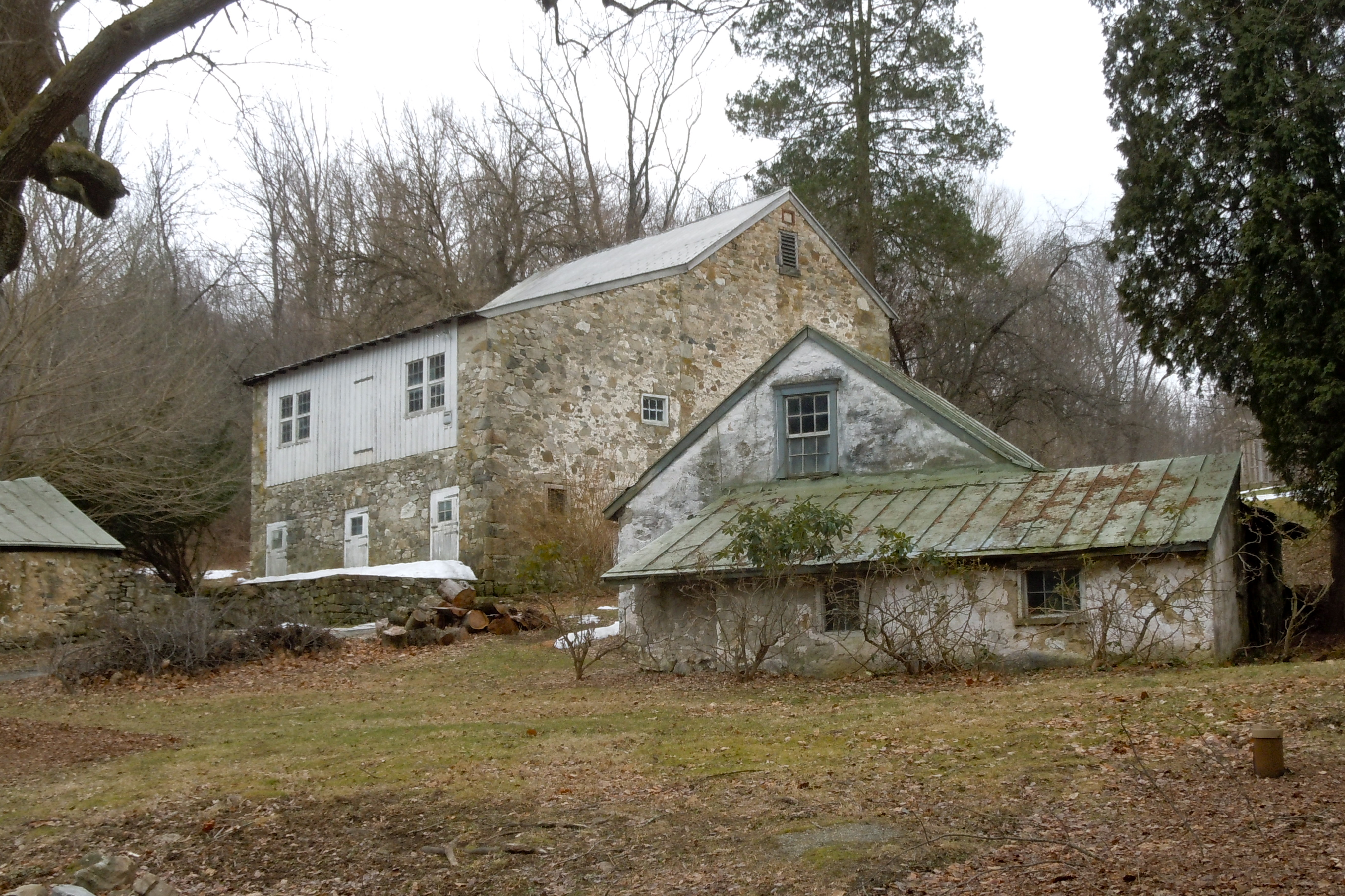 Barn and outbuildings on John Williams Farm, on the NRHP since December 15, 1978. South of Phoenixville on Union Hill Road, in Charlestown Township, Chester County, Pennsylvania